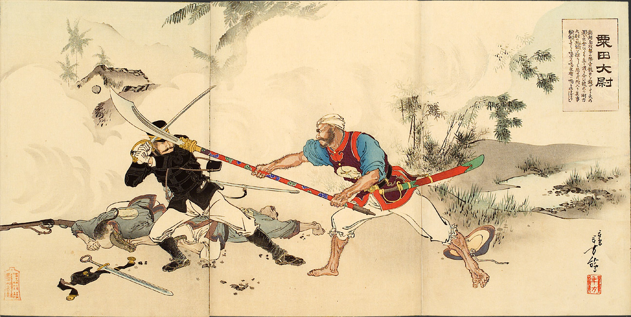 “Captain Awata“. Woodblock print (nishiki-e); ink and color on paper